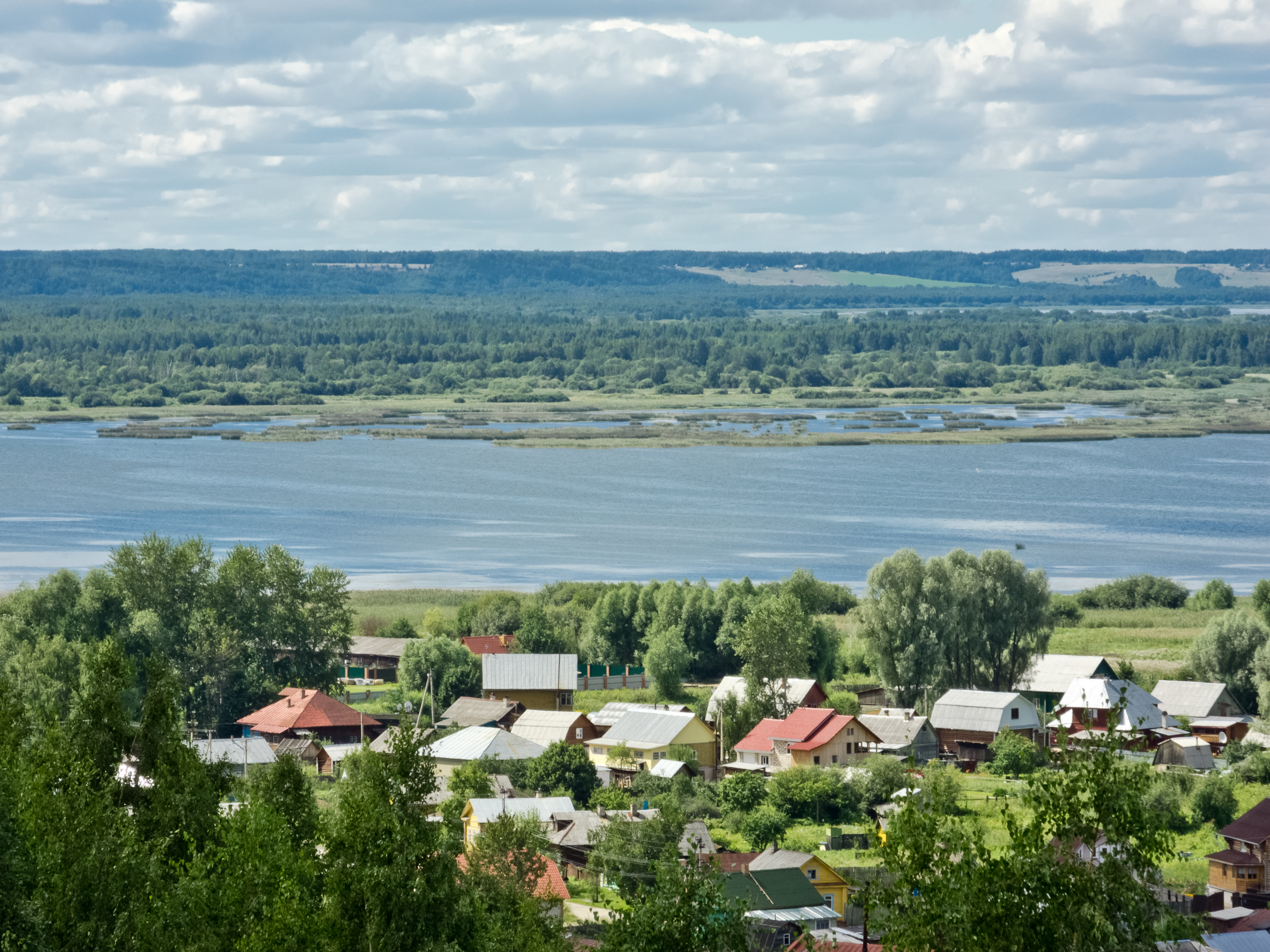 View from Balchug hill in Galich, Russia